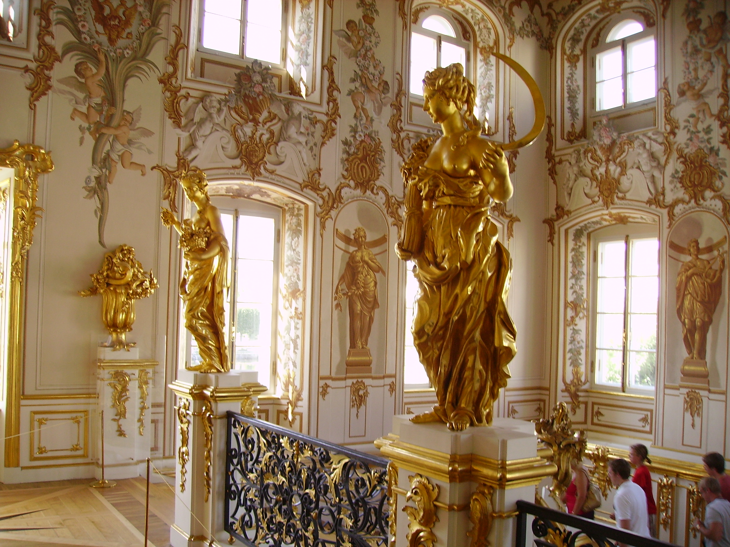 Main Staircase. Allegory summer and Spring